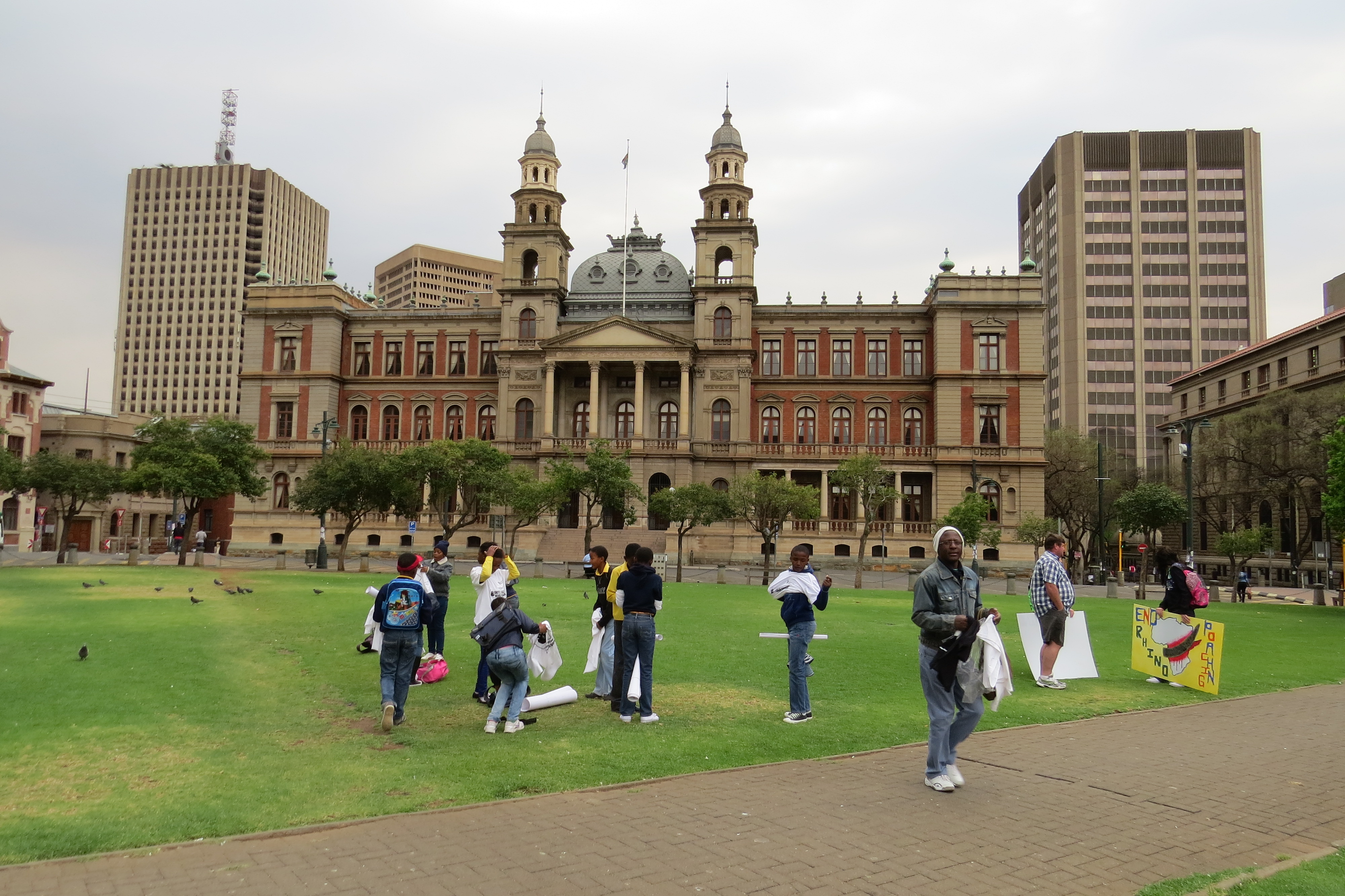 The Palace of Justice located in Church Square Pretoria. This image was taken in the early morning of 21 Sept 2013, as the Department of Environmental Affairs and its entity the South African National Parks (SANParks), led the country's first observation of Wolrd Rhino day with the public, NGOs, school children and corporate sponsors. This media shows a South African Protected Site with SAHRA file reference 9/2/258/0013.